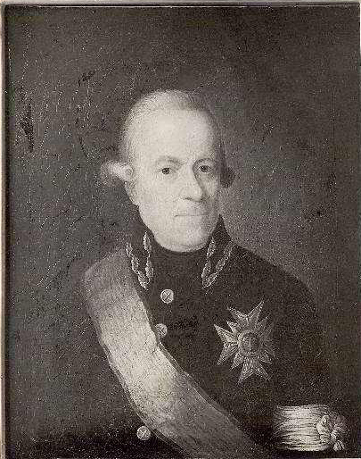 Peter Bernhard Piper